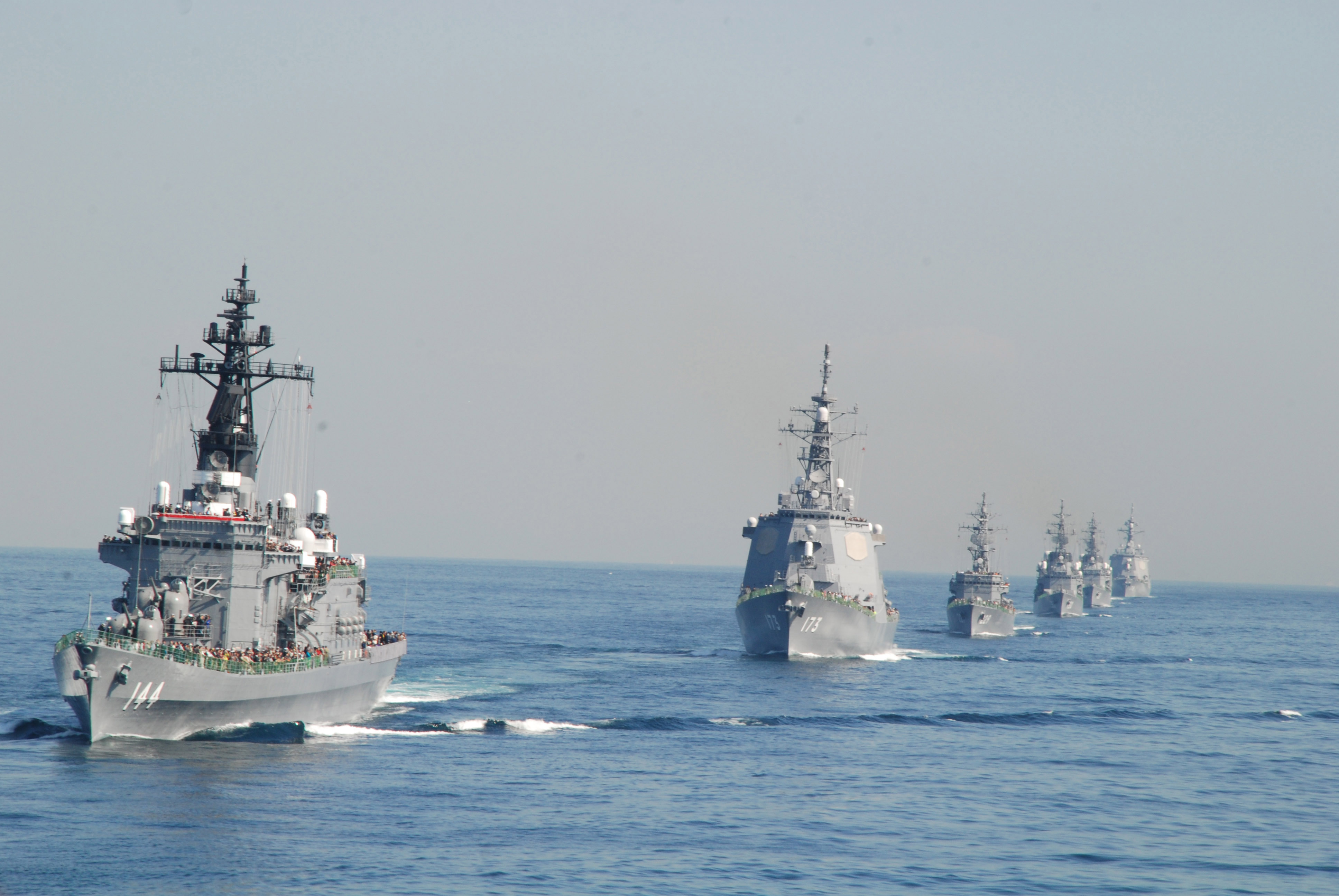 SAGAMI BAY, Japan (Oct. 21, 2009) The Japan Maritime Self-Defense Force helicopter destroyer JS Kurama (DDH-144) leads ships during a rehearsal for the 2009 fleet review. More than 8,000 civilians toured selected ships and viewed the rehearsal. (U.S. Navy photo by Mass Communication Specialist Seaman Dominique Pineiro/Released)